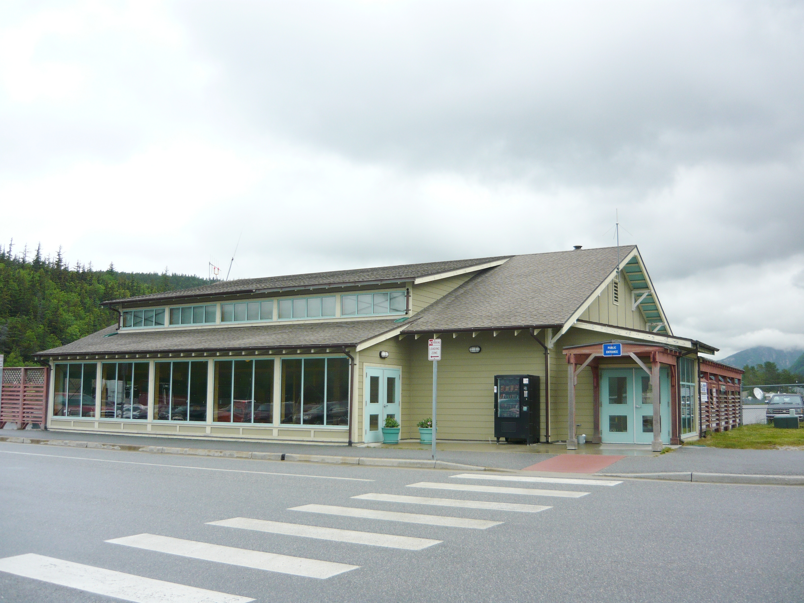 Terminal building at Skagway Airport, State Street, Skagway, Alaska.